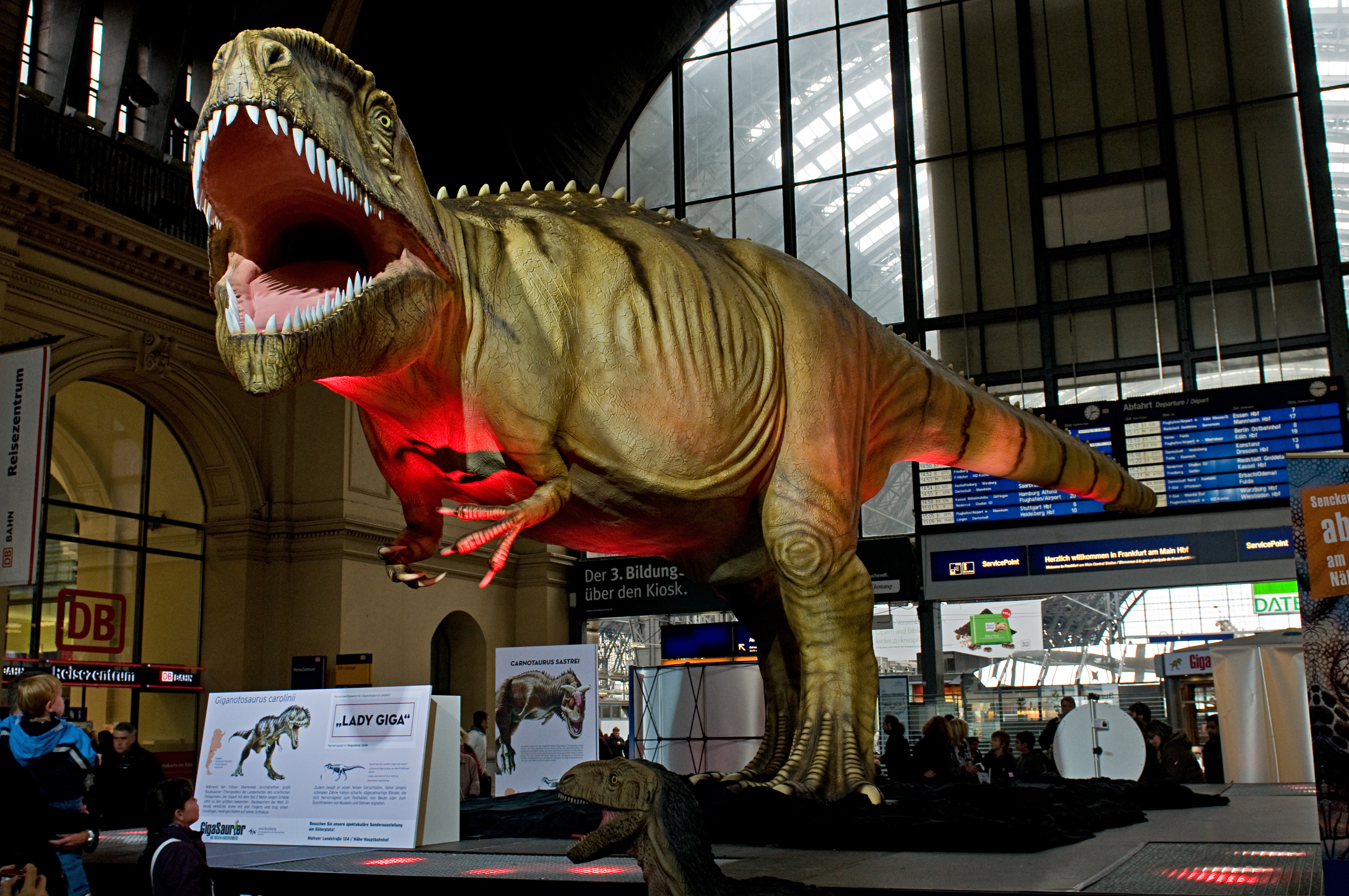 Lady Giga – model of a Giganotosaurus carolinii in the vestibule of the central station in Frankfurt am Main